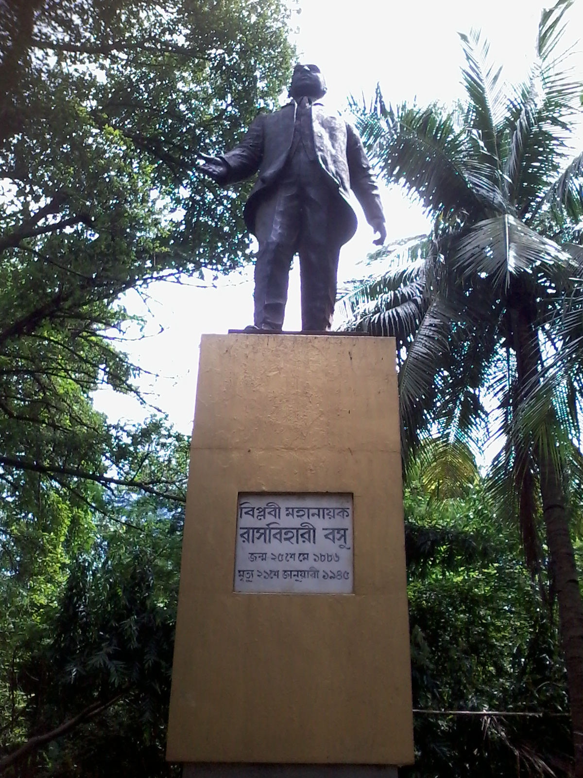 Monument of Rasbehari Basu at Sido Kanhu Dahar, Kolkata